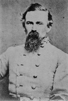 Brigadier General George Pierce Doles, Confederate States Army, from